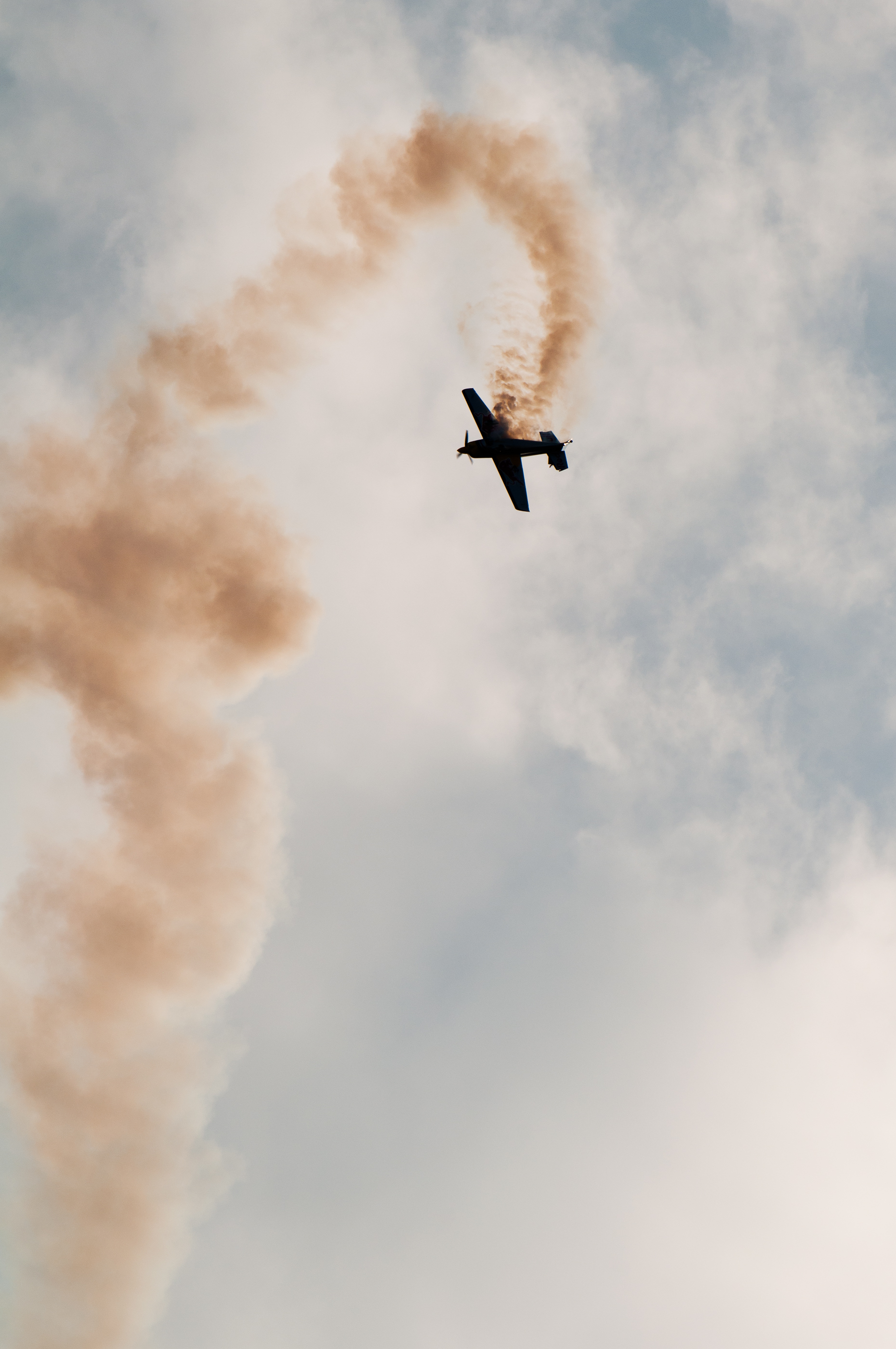 Matthias Dolderer in his Zivko Edge 540 (reg. N540MD, cn 0043, built in 2008). Engine: Lycoming/Lycon AEIO540.